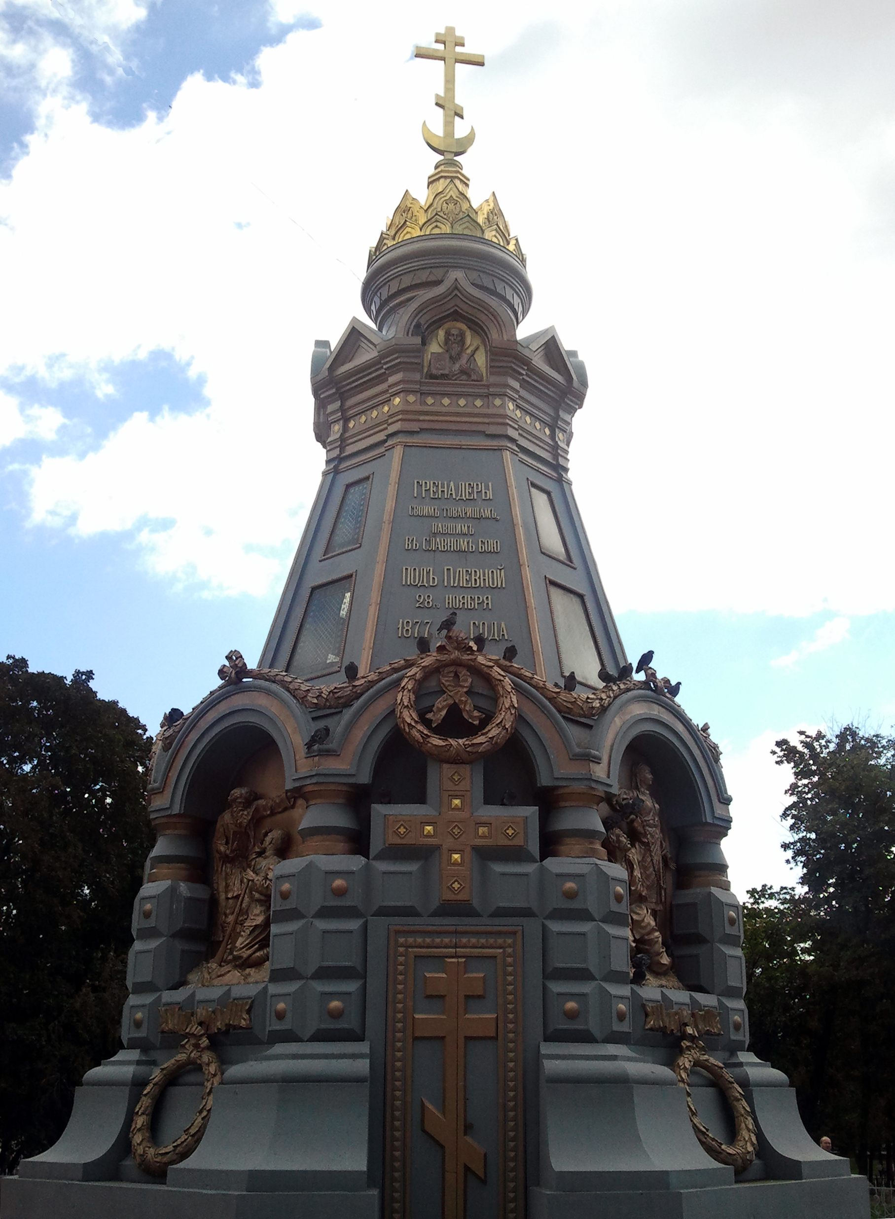 Monument for the Siege of Pleven 1877, erect in Moscow in 1888.